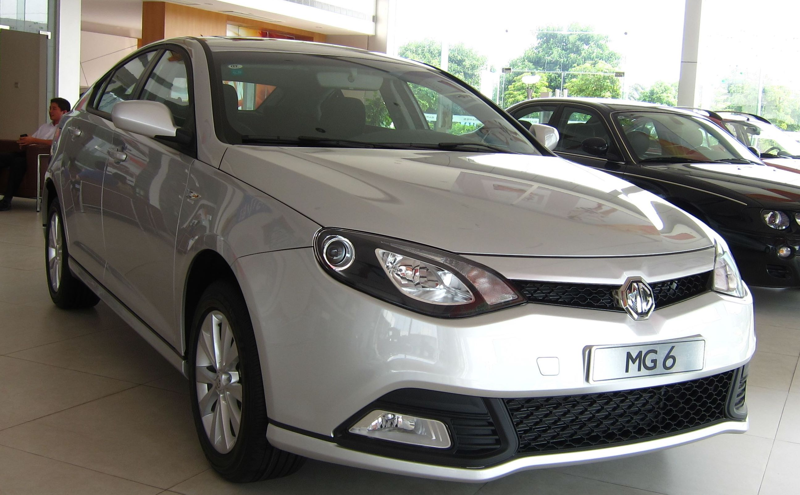 2010 MG 6 in a showroom in China